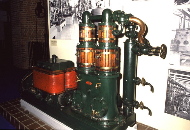 Science Museum, Willans steam engine, near to Kensington, Kensington And Chelsea, Great Britain. This is a nicely preserved example of a Willans steam engine. This was an early design of high speed enclosed steam engine suited for direct coupling to a dynamo or alternator. The cylinders were single acting with central valves working inside the tubular piston rods. Lubrication was by splash. This one was used at High Flaggs Oil Mill owned by Chambers & Fargus Ltd of Hull and is coupled to a Siemens 10 kW dynamo running at 450 rpm. Because of the interesting internal layout of the Willans engine, some were sectioned to show their inner secrets. It is always nice to see an intact example. The Science Museum does have a sectioned one also.